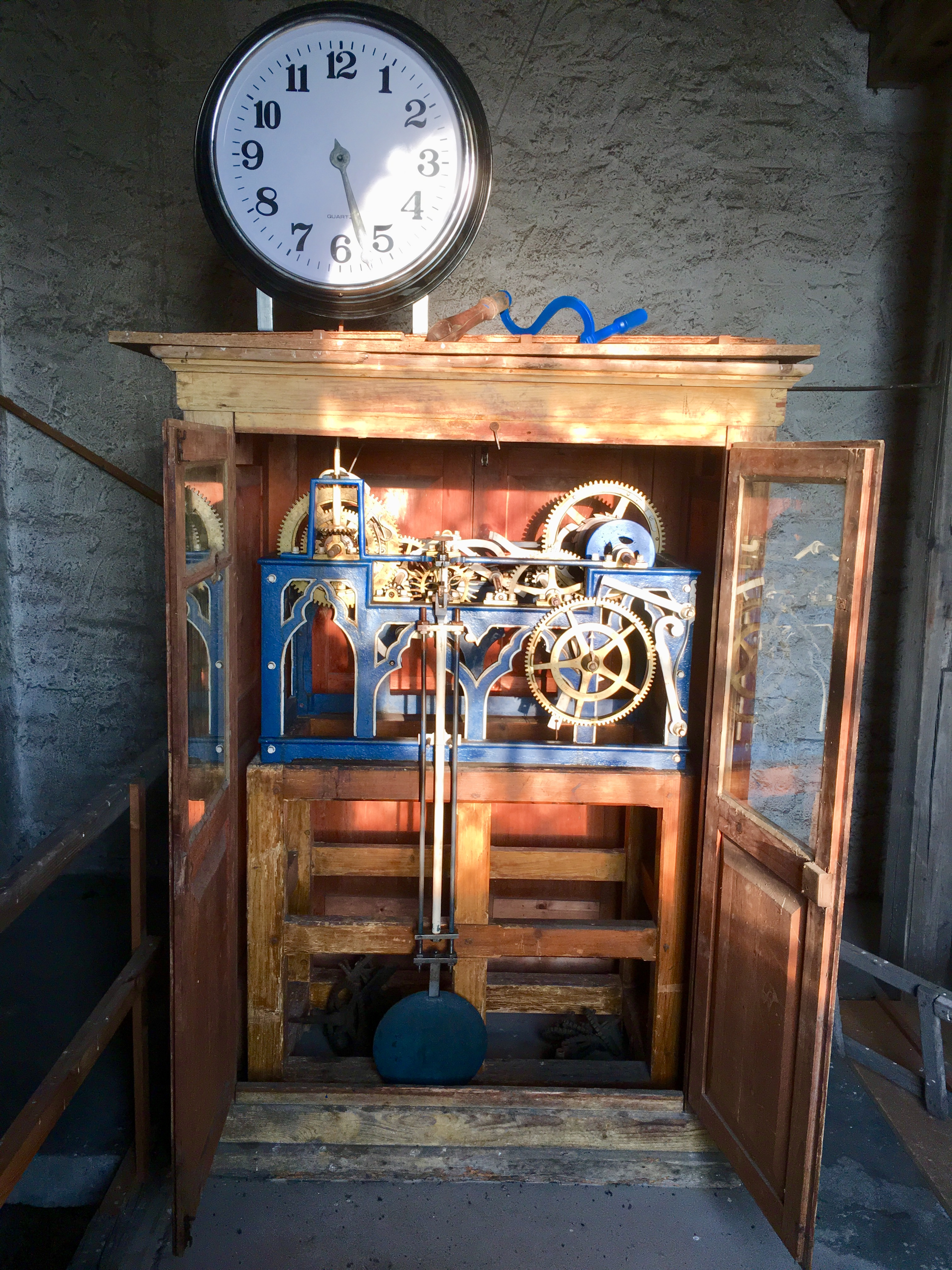 historic interior of the mechanic tower clock, St Gereon (Nackenheim)